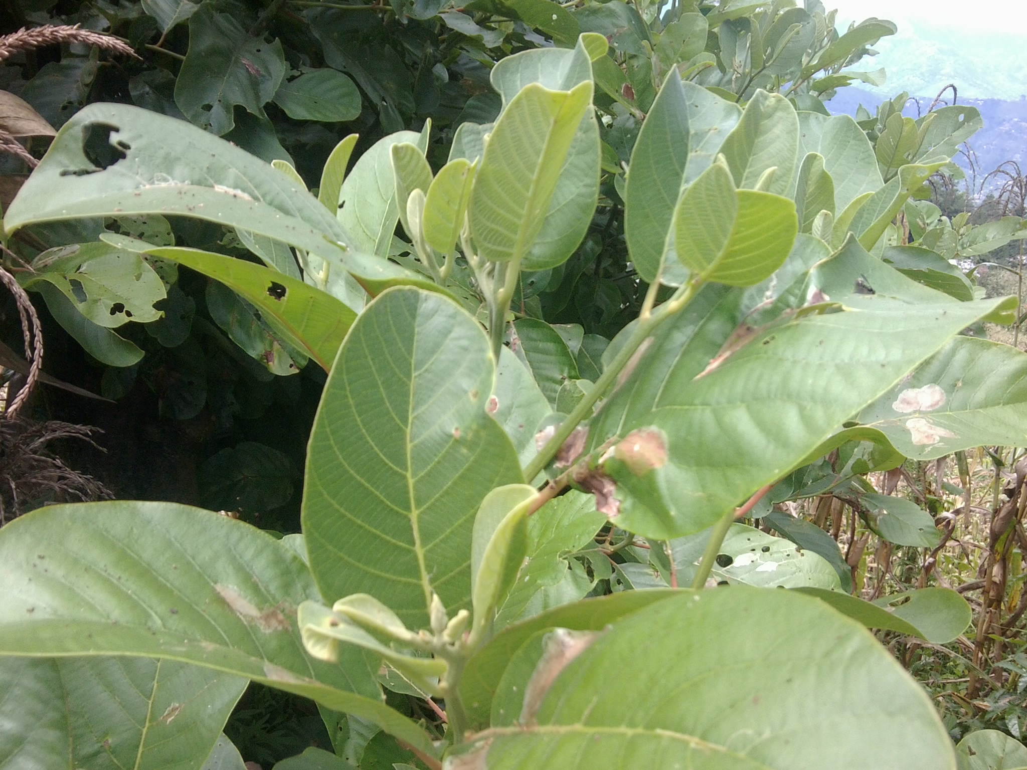 Litsea monopetala in mid-hill of Nepal.